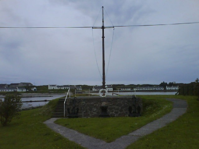 MV Lochiel memorial garden, Port Ellen. A small but poignant memorial to the MV Lochiel which faithfully served Islay from 1939 to 1970. She was broken up in Bristol but fortunately some parts of her were saved to make this peaceful garden. My grandfather was the quartermaser and mate on the Lochiel for many years, so it's a special place for me.